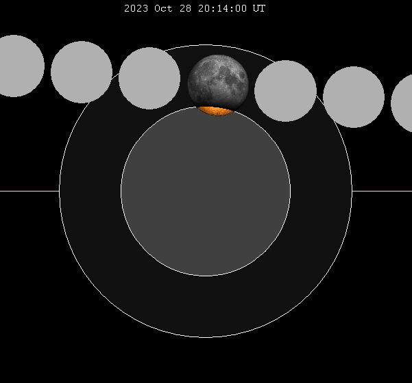 October 2023 lunar eclipse chart of moon's total lunar eclipse path through the earth's shadow. thumb